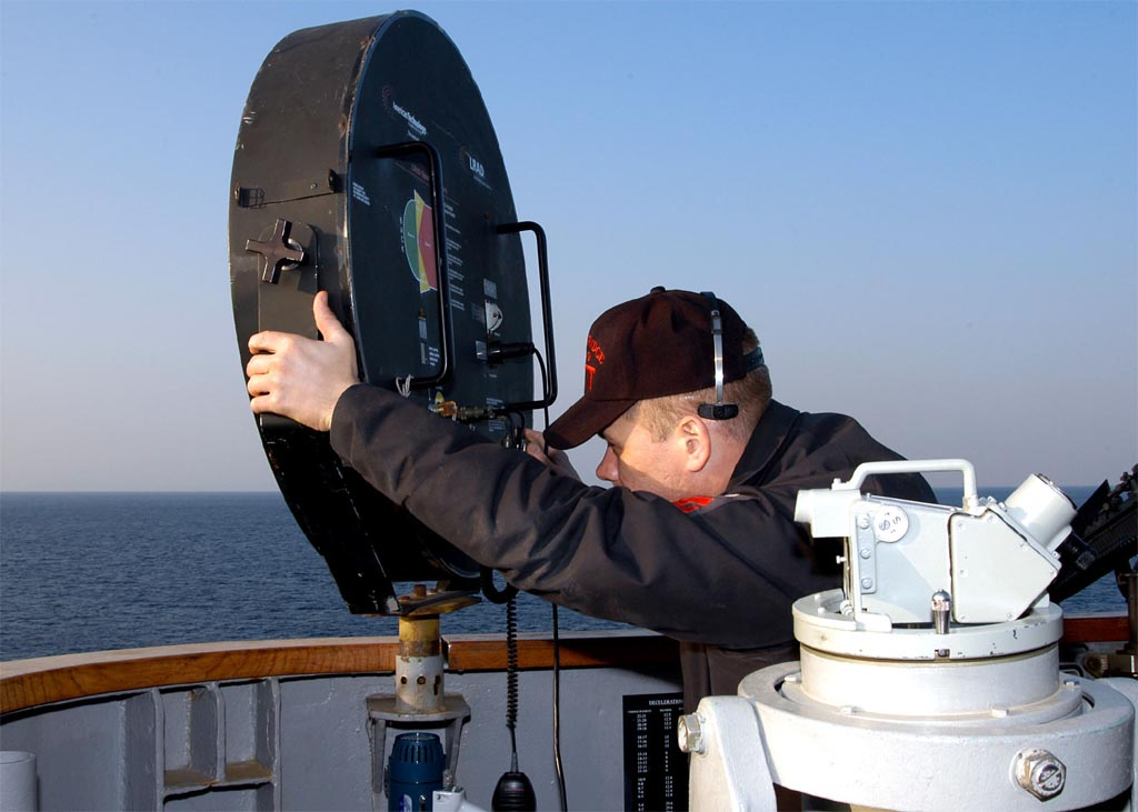 Ship's Serviceman 1st Class Scott D. Amberger aims a Long Range Acoustic Device (LRAD) at an incoming small craft off the starboard bridge wing of amphibious command ship USS Blue Ridge (LCC 19) during a small boat attack drill.